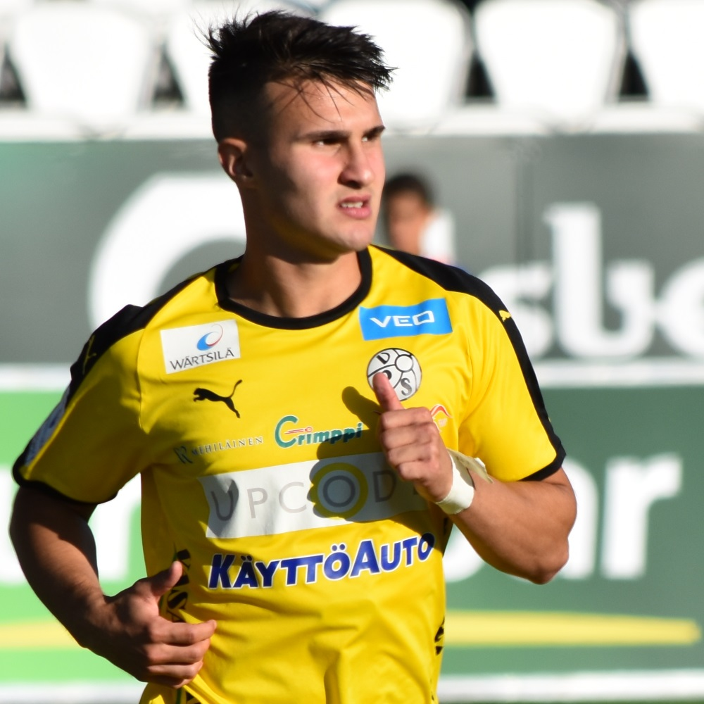 Assocation football player Berkant Güner (VPS)